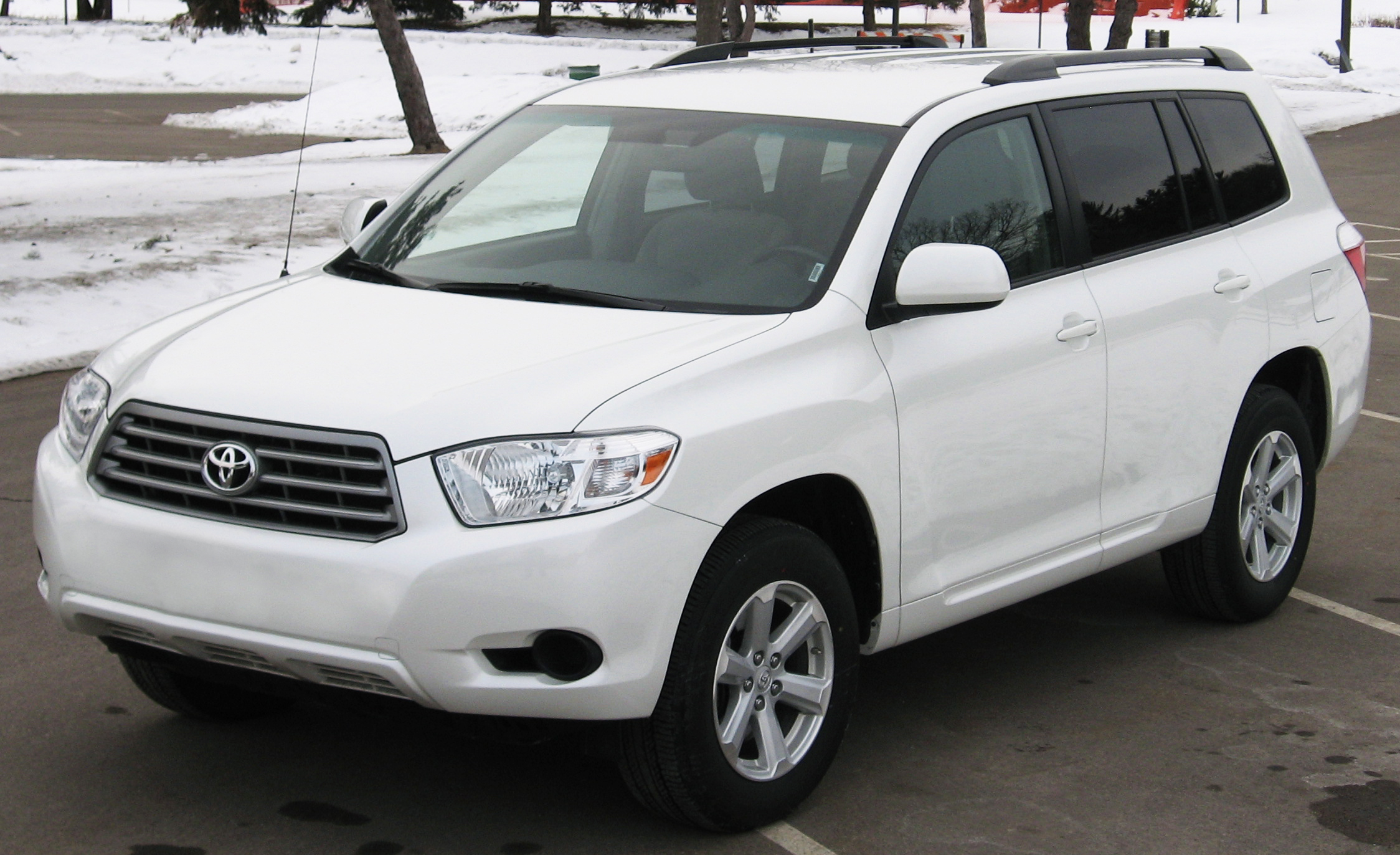 2008 Toyota Highlander